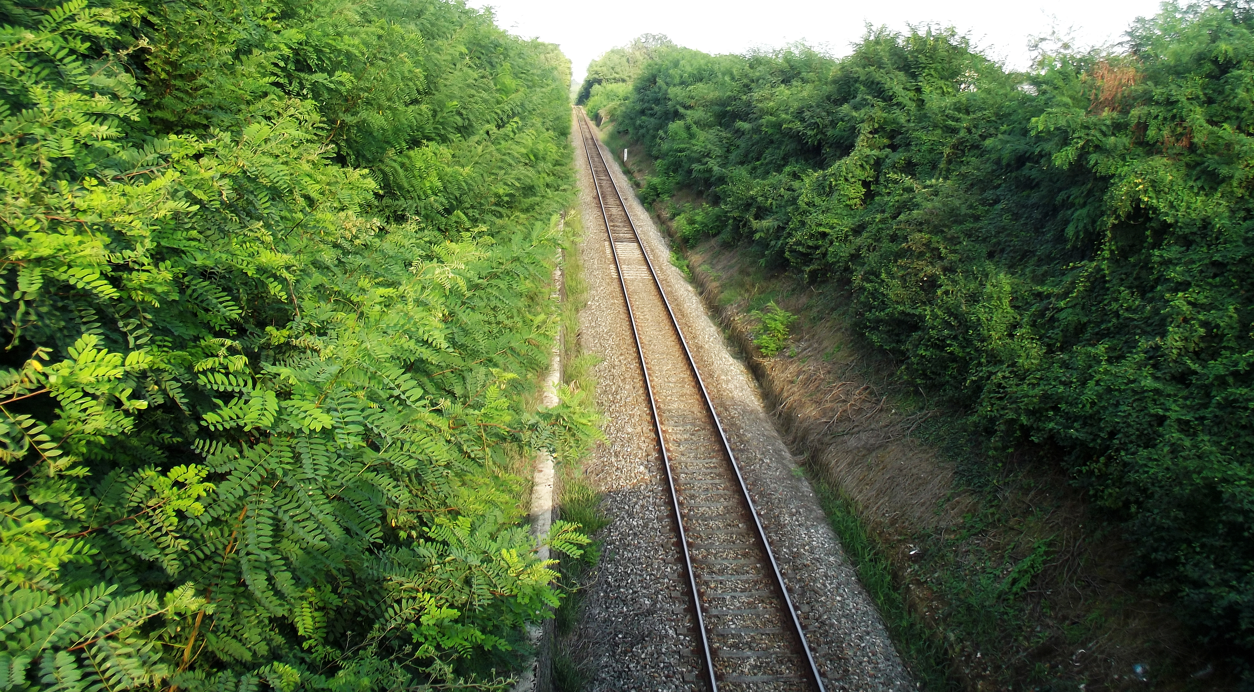 Biella–Novara railway (Italy) between the stations of Cossato and Rovasenda